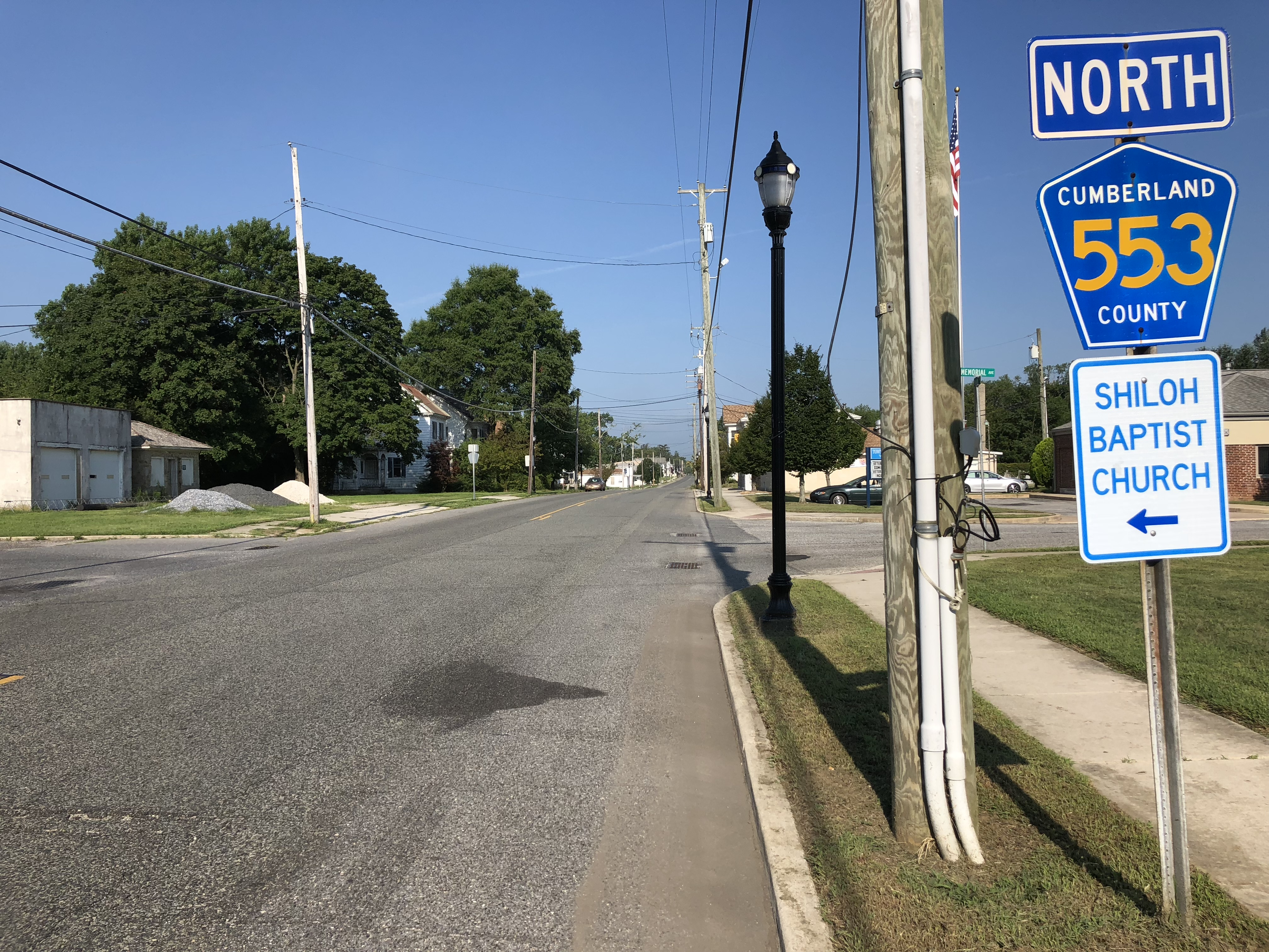 View north along Cumberland County Route 553 (Main Street) at Memorial Avenue in Commercial Township, Cumberland County, New Jersey